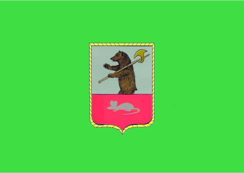 Flag of Myshkin (2007)